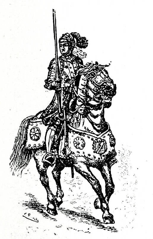 Military art (military science)